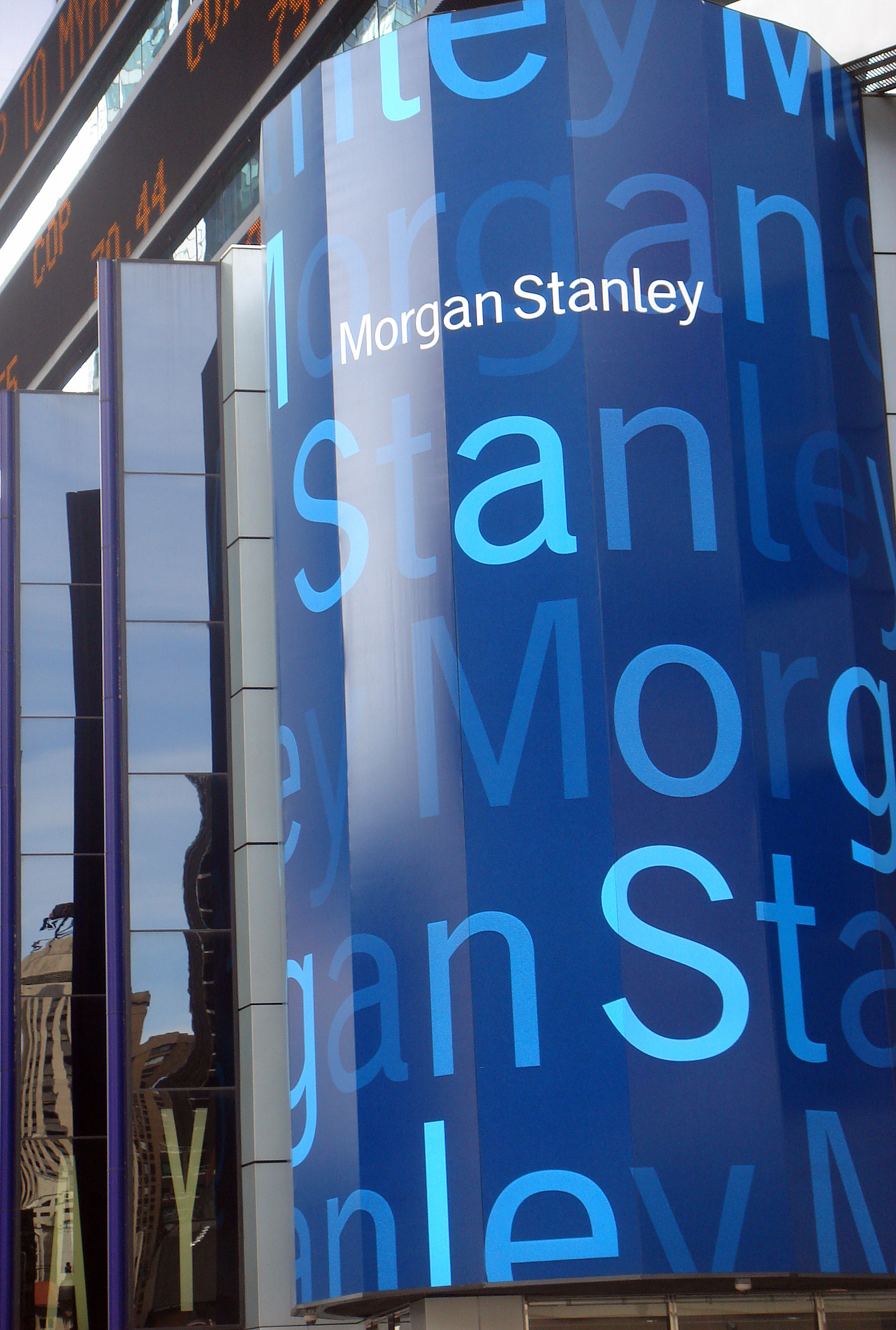 Morgan Stanley's office on Times Square